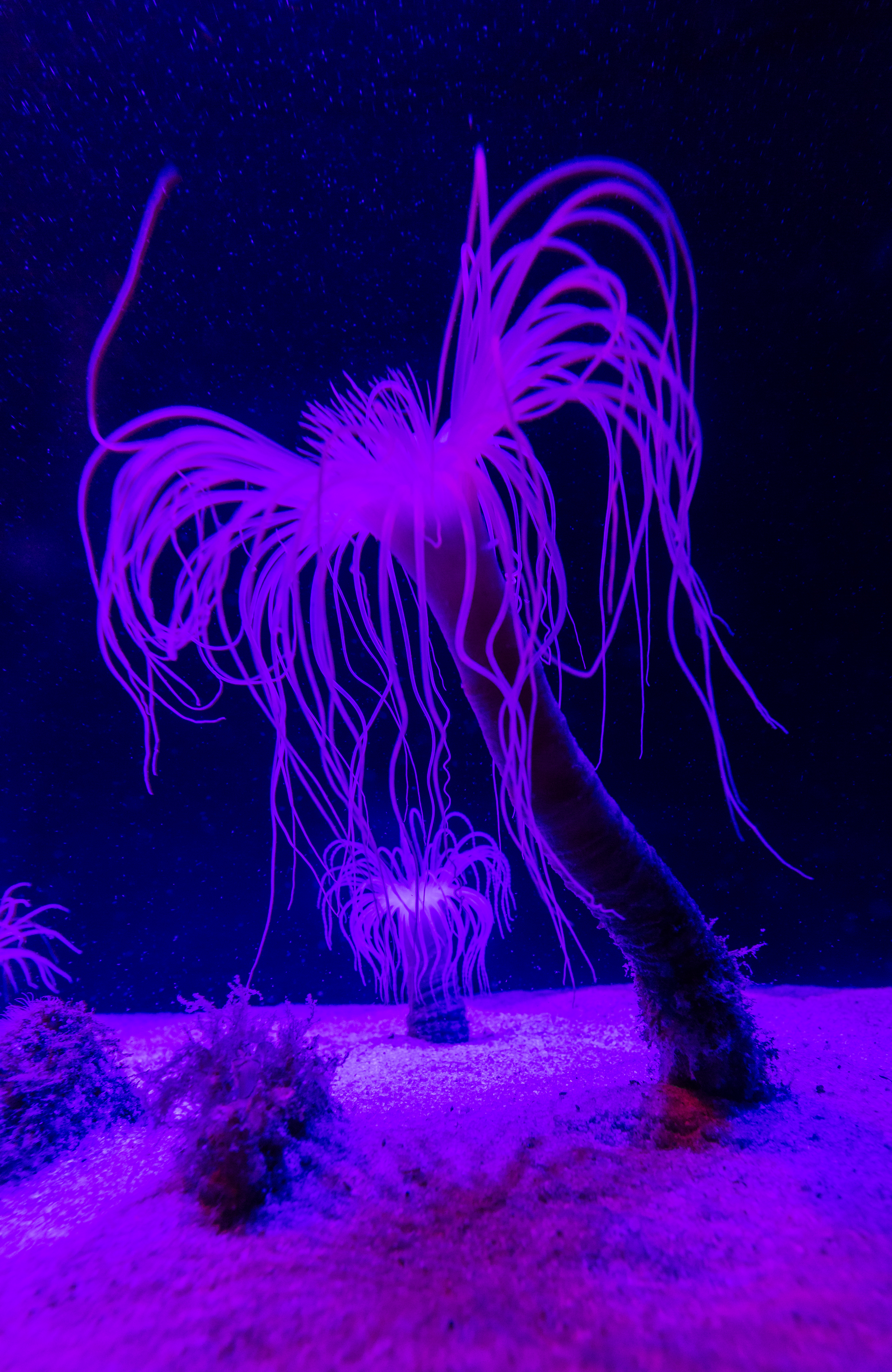 Anemone (Ceriantharia), Cape Town Aquarium, South Africa